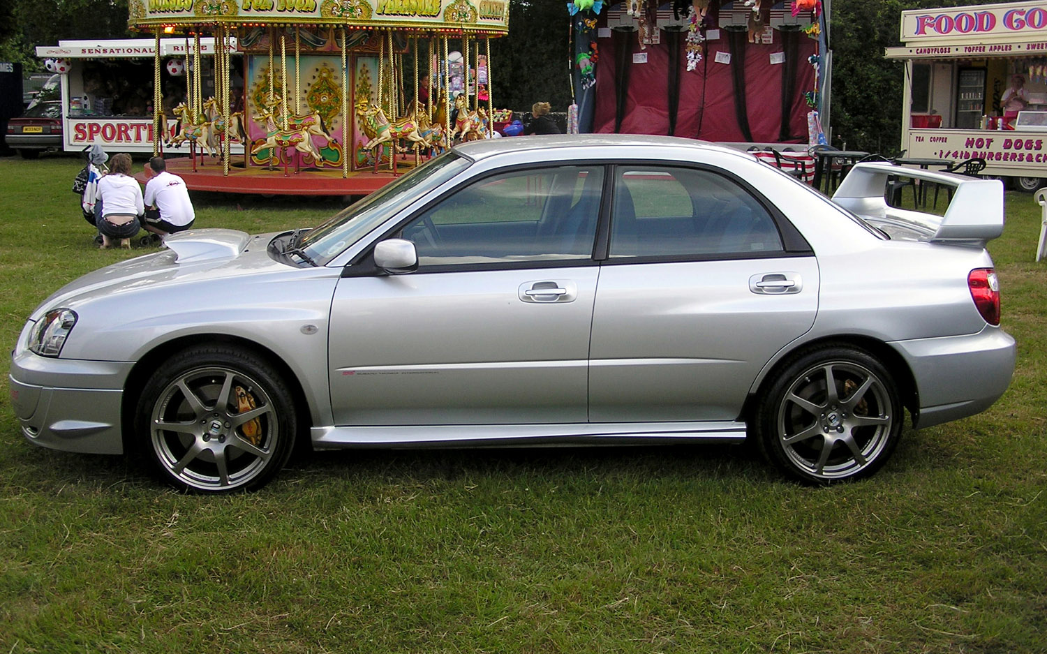 2004 Subaru Impreza WRX STi at Yate Car Show, Yate, Bristol, England. Taken by Adrian Pingstone in June 2004 and released to the public domain.